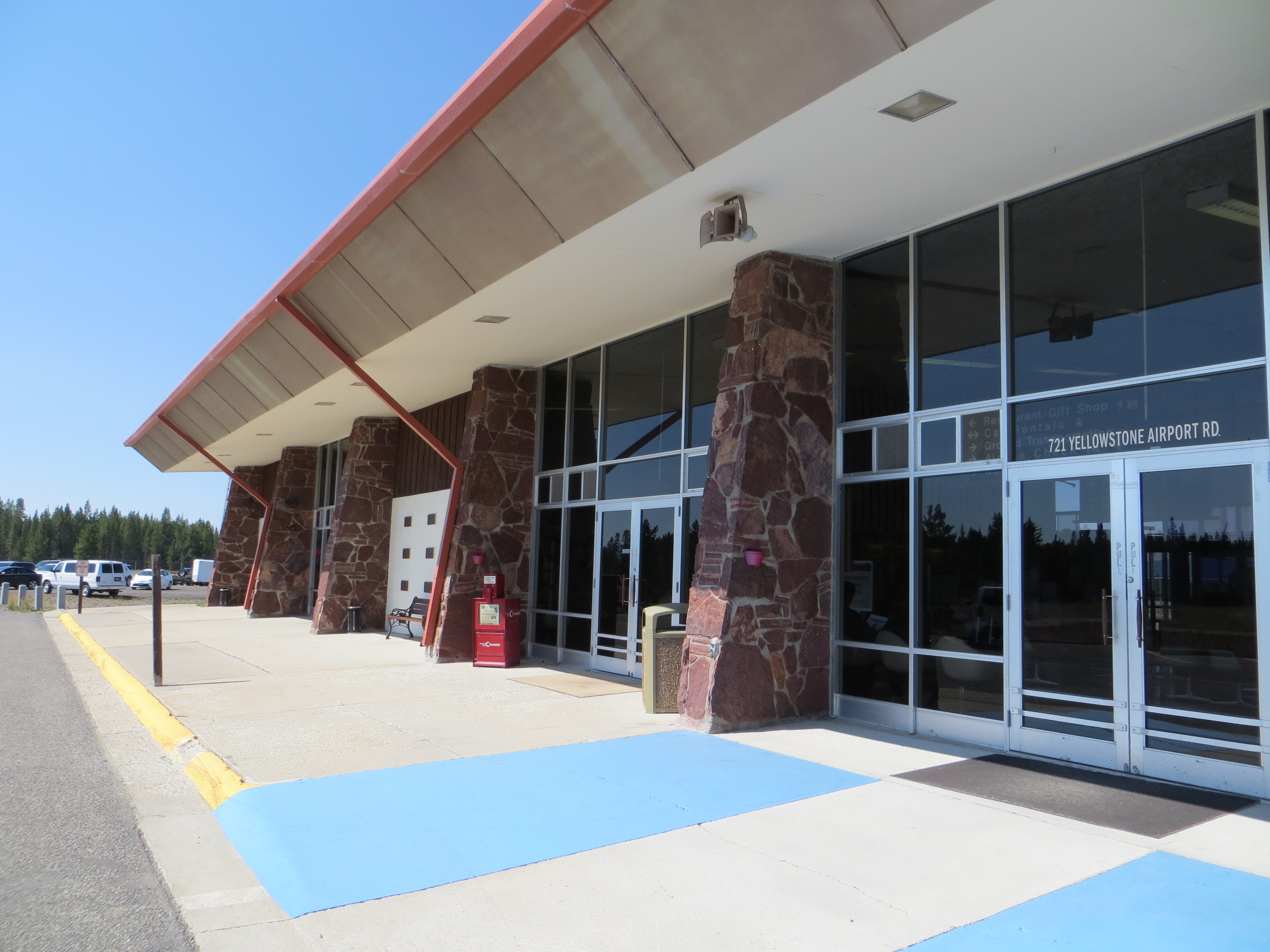 Looking down one end of West Yellowstone Airport, landside.